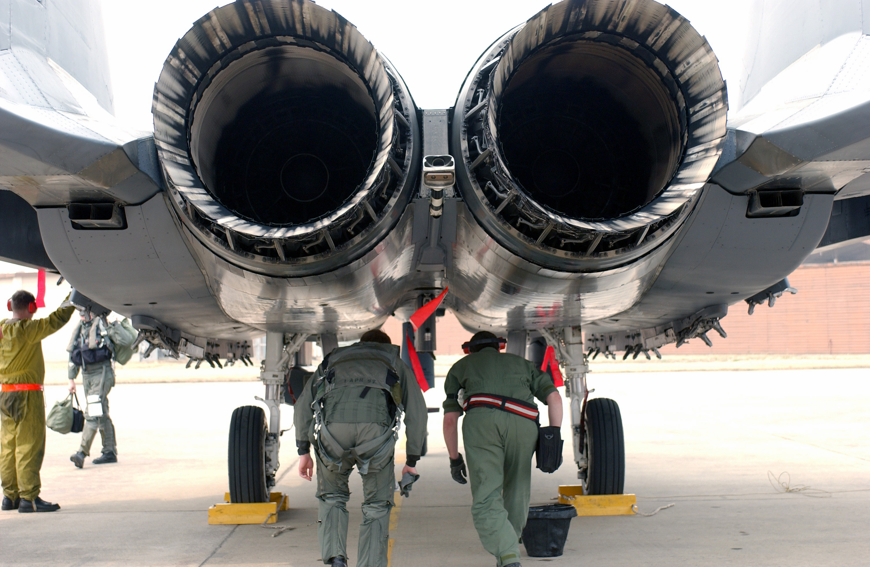 A US Air Force (USAF) Pilot and USAF Crewchief, 90th Fighter Squadron (FS), Elmendorf Air Force Base (AFB), Alaska (AK), perform a walk around inspection of a USAF F-15E Eagle prior to a mission during Exercise FOAL EAGLE.